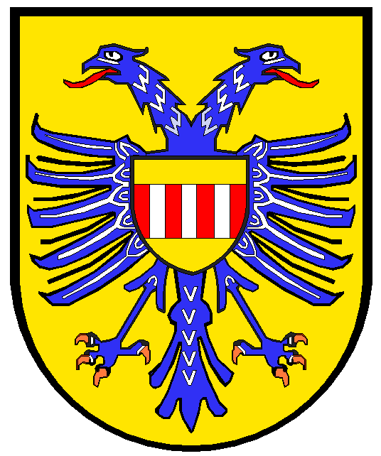 Coat Gemen, Germany